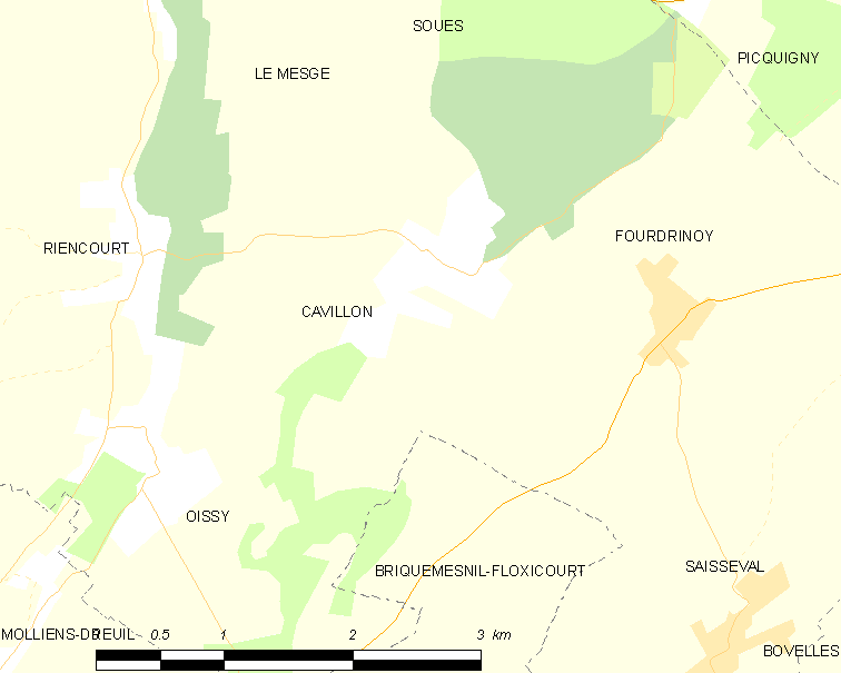 Map of French municipality Cavillon